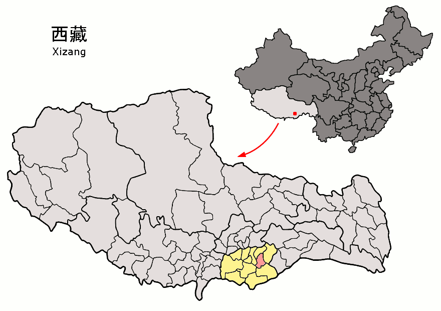 Location of Qusum County (pink) and Shannan Prefecture (yellow) within Tibet (Xizang) autonomous region of China